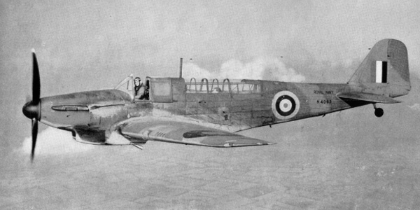 Fairey Fulmar Mk. II carrier-borne fighter and recce with serial number N4062 in 1941(?) (Mk I airframe completed as Mk II)